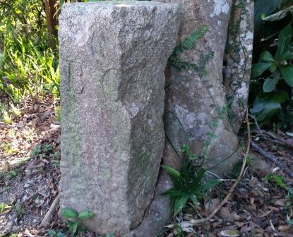 Lei Yue Mun Park, Sole Remaining Marker of T B Collinson